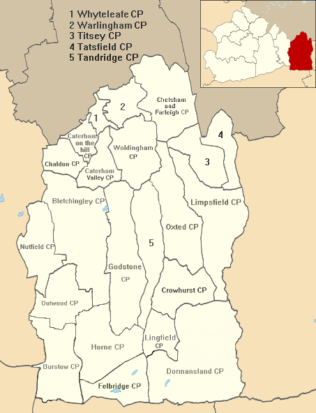 Civil parishes in the district of Tandridge, Surrey, England, United Kingdom